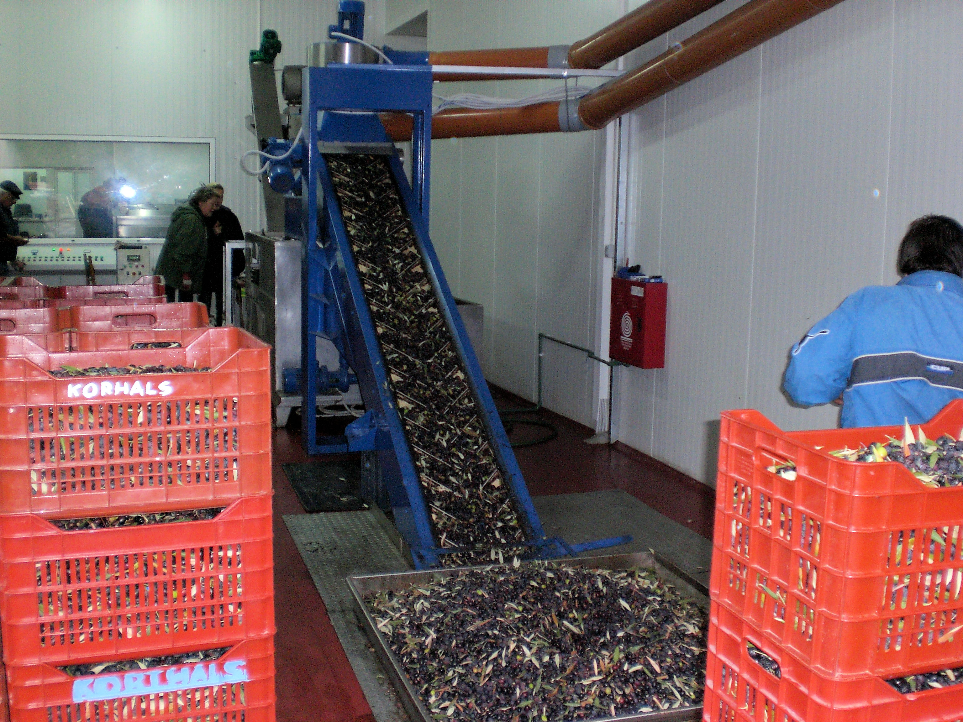 Olives input